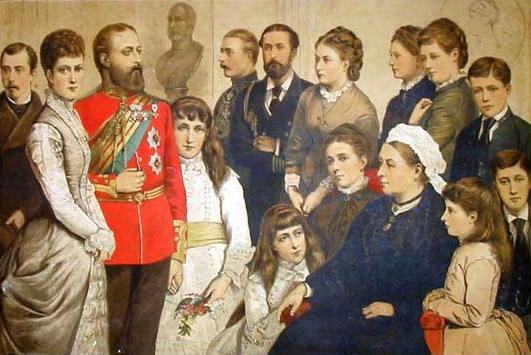 Print of the British royal family. Based on a painting by J. Archer.